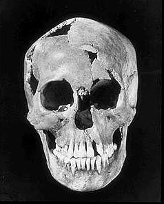 Photograph of "Minnesota Woman" unearthed in Otter Tail County, Minnesota in 1931.